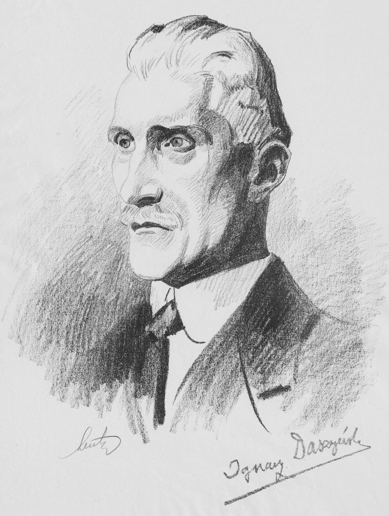 Ignacy Daszyński drawn by Stanisław Lentz.